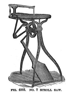 19th century knowledge woodworking foot powered scroll saw